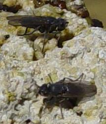 Image taken in June 2004 by Daniel Mayer.